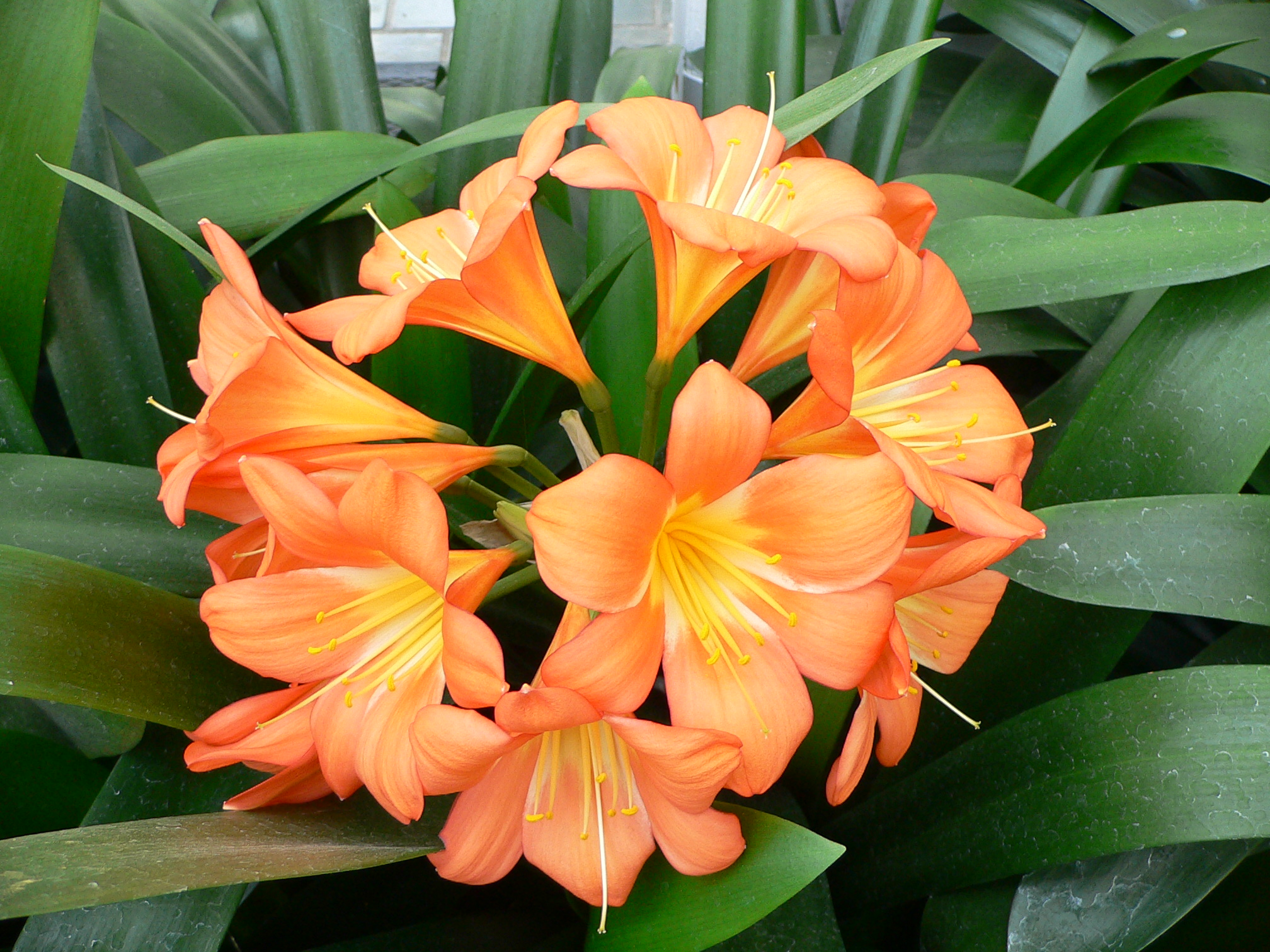 Clivia miniata from Longwood Gardens